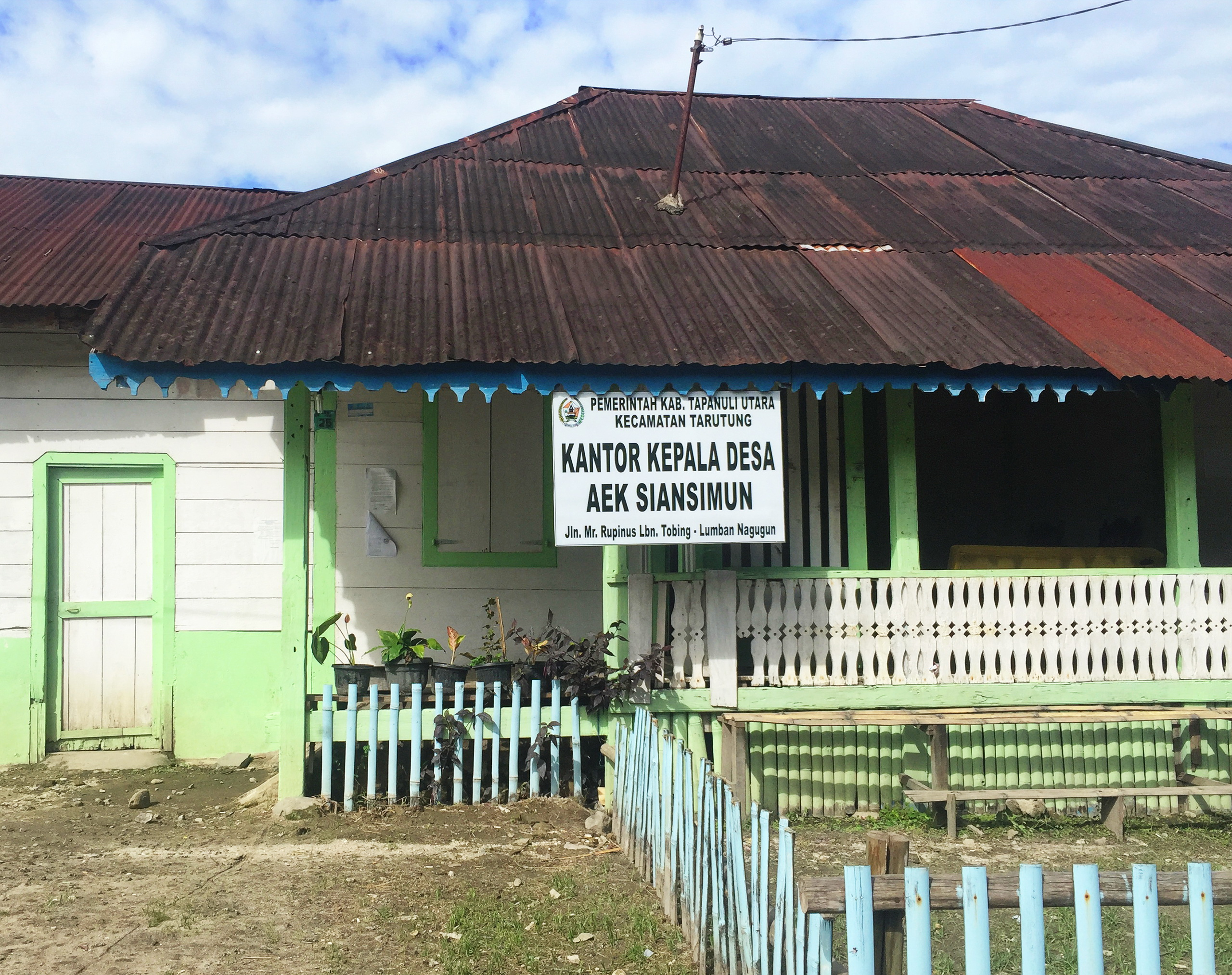 Office of Aek Siansimun, Tarutung, Tapanuli Utara